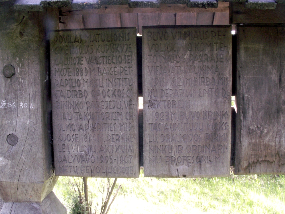 Biography of Povilas Matulionis in Aleksandrija